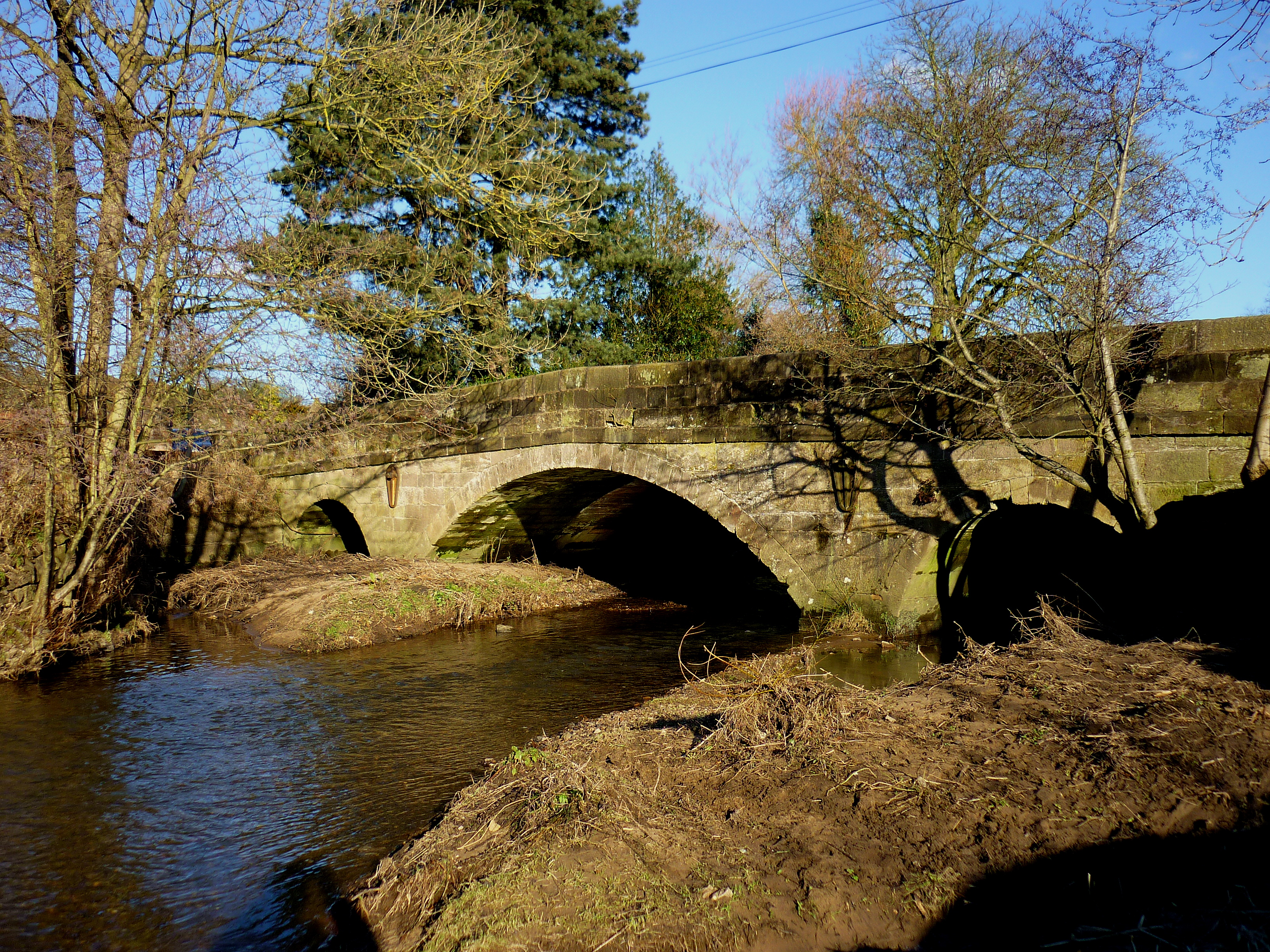 Crossing the Henmore, Ashbourne School Lane crossing The Henmoore Brook close to Leisure Centre, Ashbourne.